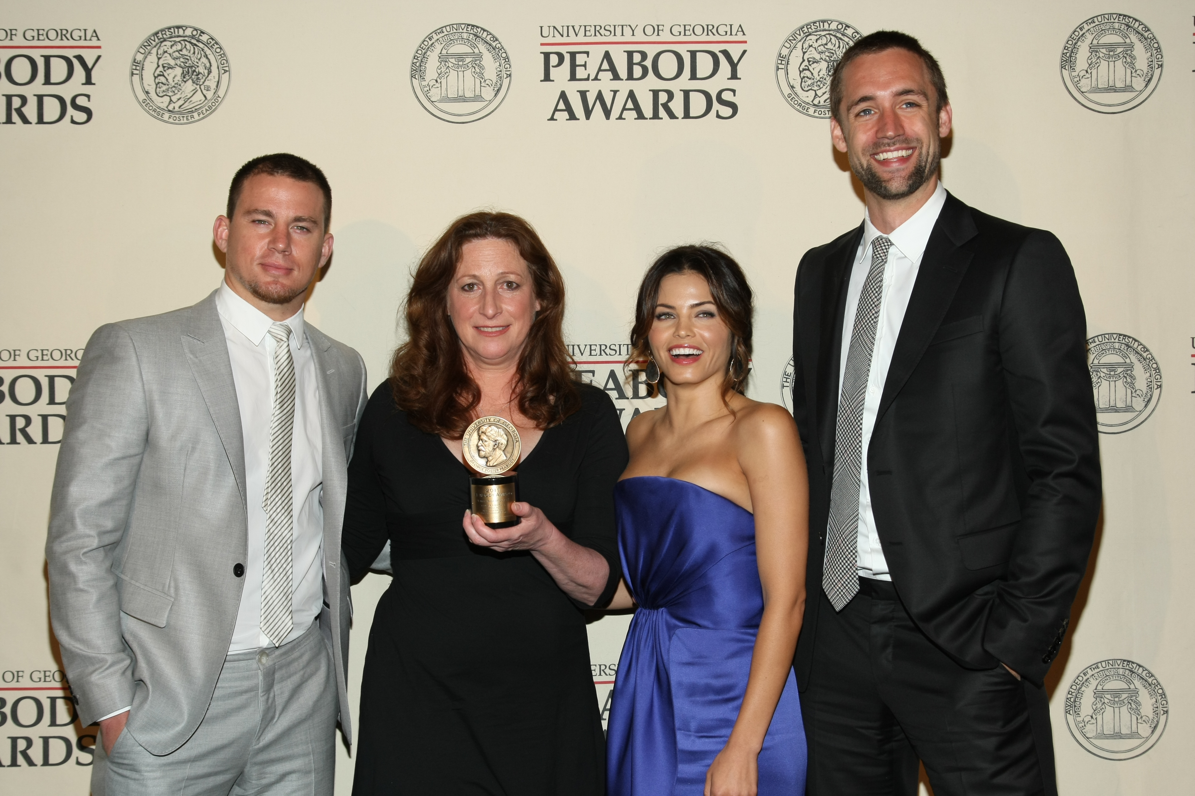 PHOTO CREDIT: ANDERS KRUSBERG / PEABODY AWARDS Channing Tatum, Deborah Scranton, Jenna Dewan Tatum and Reid Carolin 71st Annual Peabody Awards Luncheon Waldorf=Astoria Hotel May 21, 2012